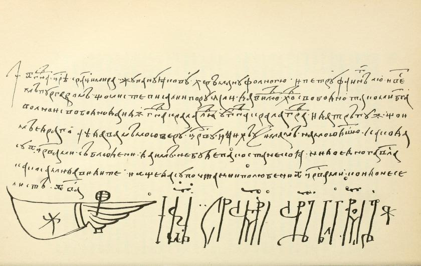 Brashov charter of tsar Ivan Sratsimir of Bulgaria, issued between 1369 and 1380.